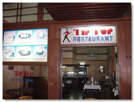 Tip Top restaurant in Medan, Indonesia.